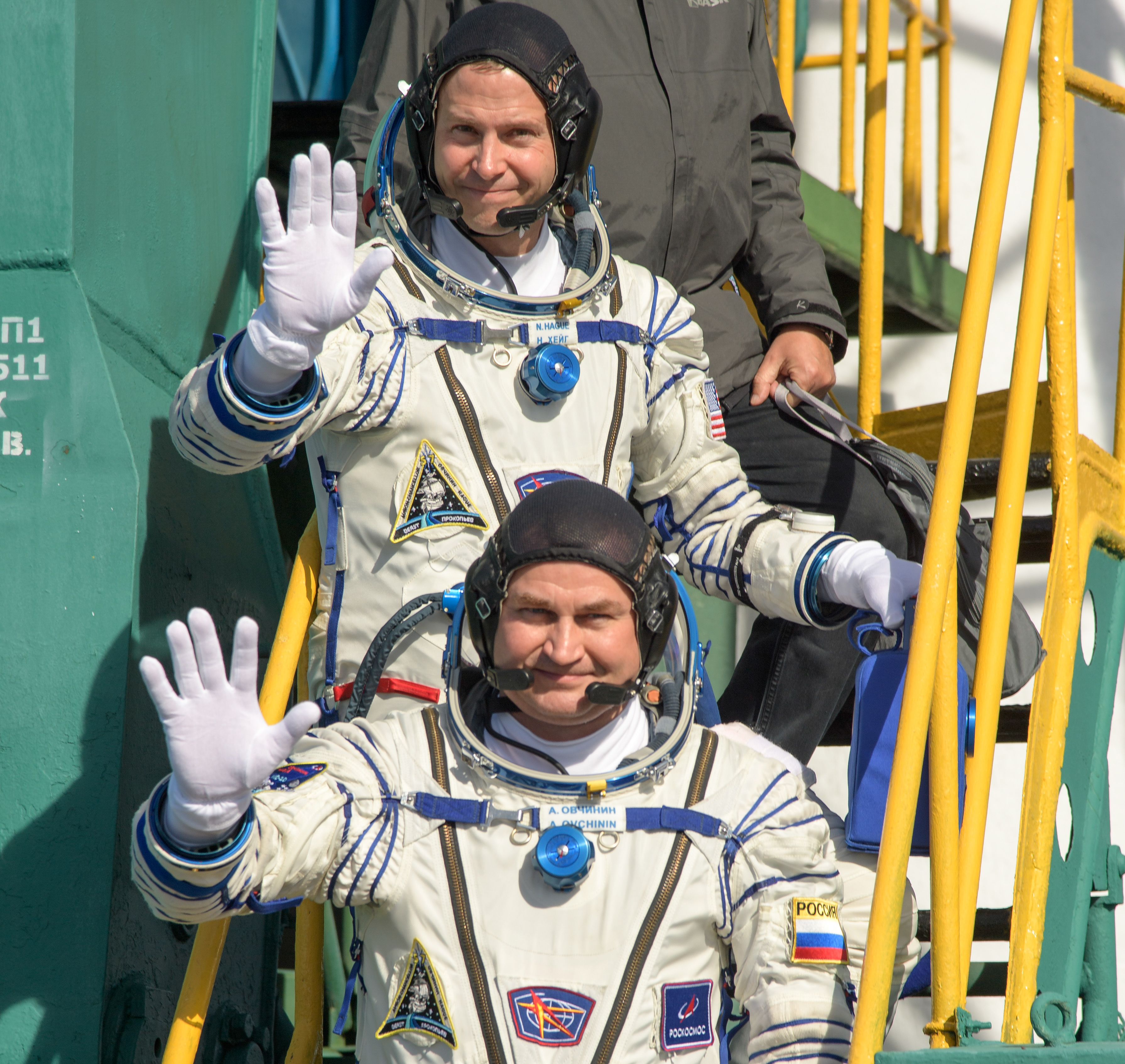 Expedition 57 Flight Engineer Nick Hague of NASA, top, and Flight Engineer Alexey Ovchinin of Roscosmos, wave farewell prior to boarding the Soyuz MS-10 spacecraft for launch, Thursday, Oct. 11, 2018 at the Baikonur Cosmodrome in Kazakhstan. Hague and Ovchinin will spend the next six months living and working aboard the International Space Station.